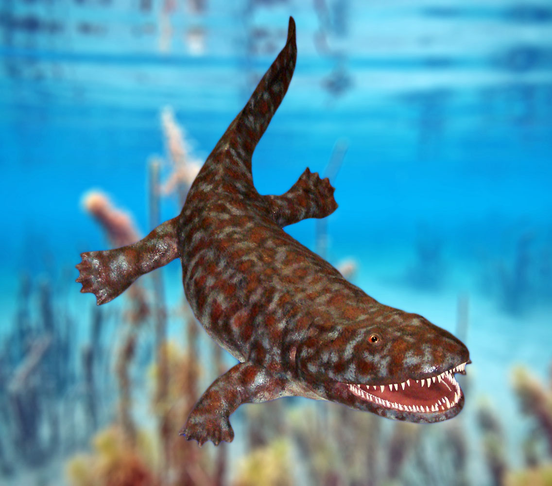 Model of Ichthyostega at State Museum of Natural History in Stuttgart Germany, scientifically supervised by Dr. Rainer Schoch. The external visibility of only five of the fingers and toes is intentional.